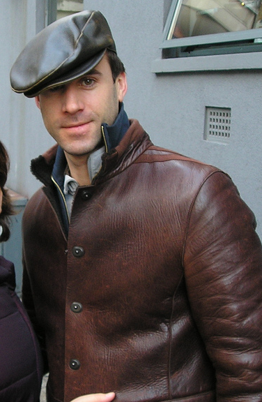 (Dec 2005) Back in 2005, I was in London for a couple of days with some friends. When I found out that Joseph Fiennes was doing a play, I HAD to meet him! I still can't think of where I got the courage from to put both my hands on him! lol He was very nice and signed for everyone, even when you could tell some of them were autograph dealers